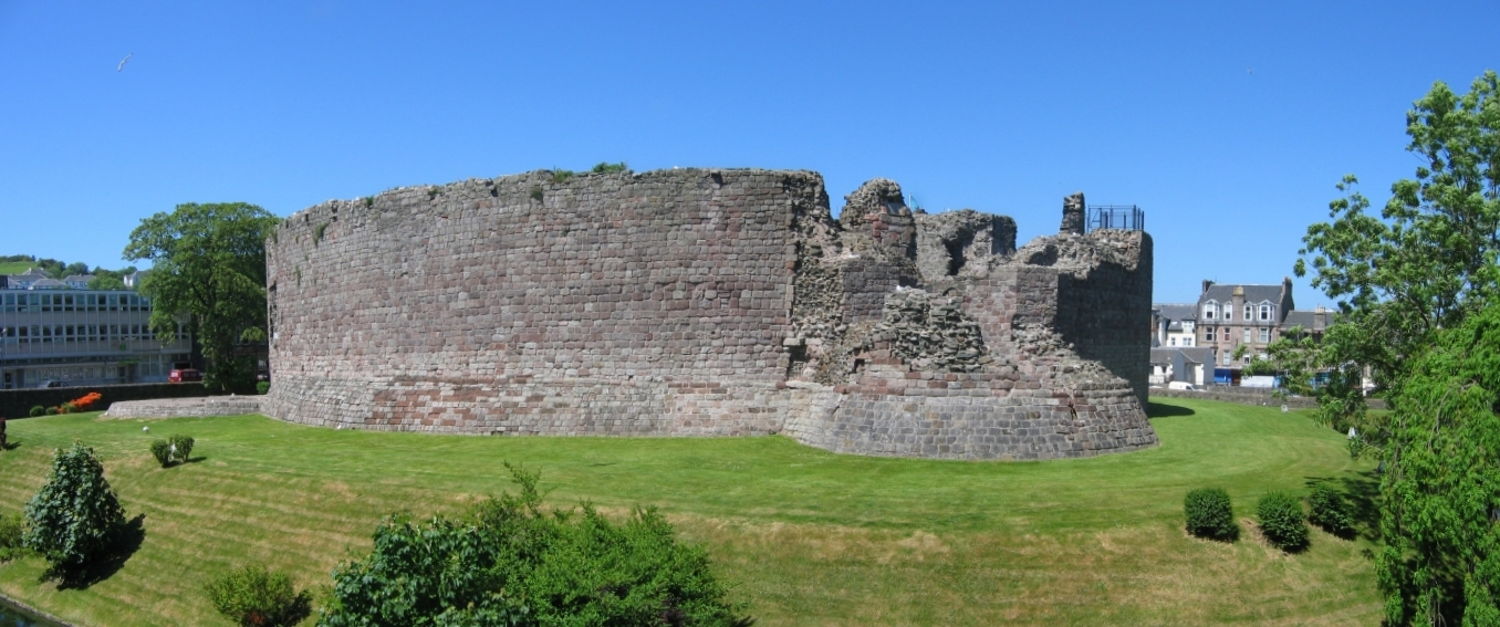 South view of Rothesay Castle, Bute, Scotland.